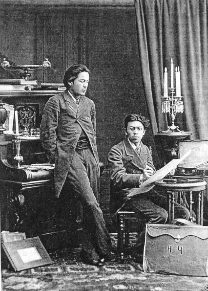 A. P. Chekhov (left) with his brother Nikolay Chekhov, an artist (right)